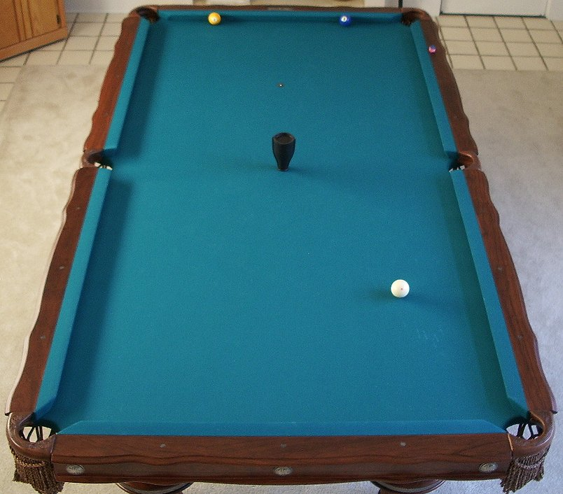 The initial set up of bottle pool (expansive-view version; see below for cropped variant)